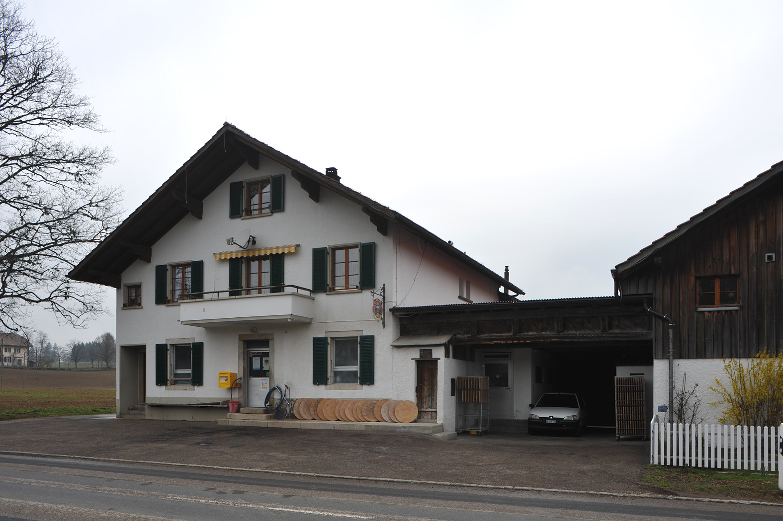 Cheese dairy Chaux-d'Abel in La Chaux-d'Abel; Berne, Switzerland.